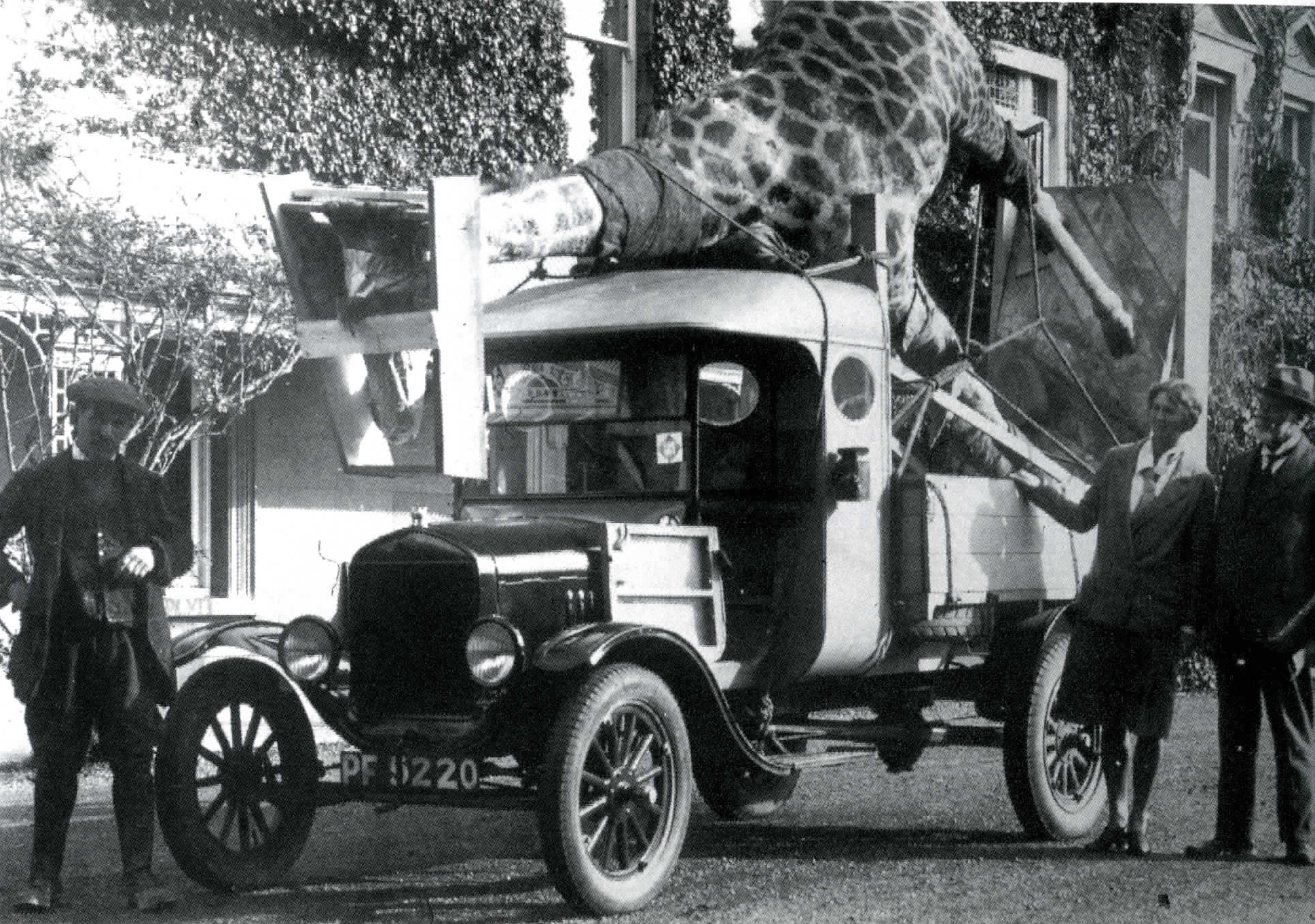 The process of transporting a large giraffe, which would not fit in the car.